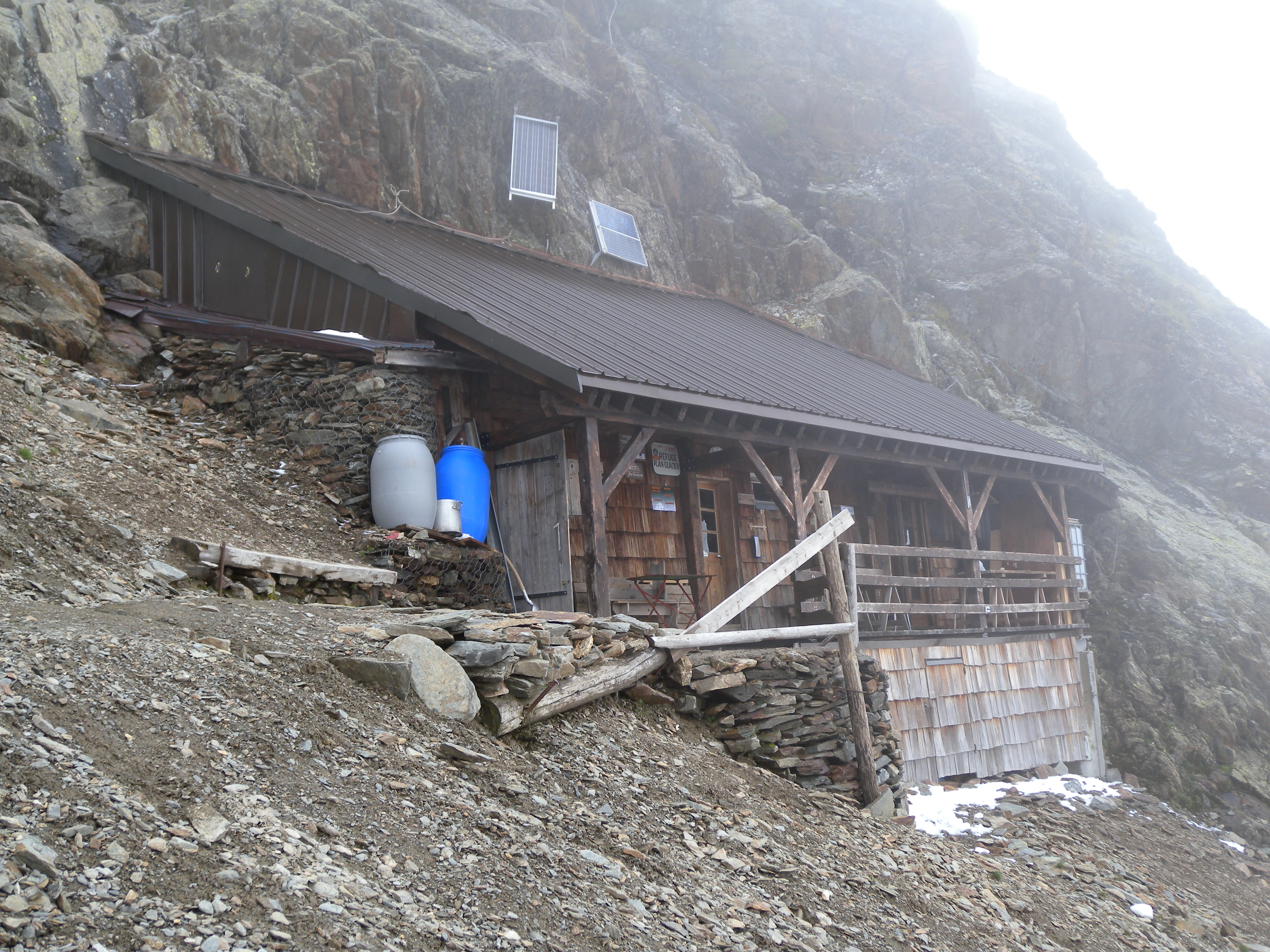 The Plan Glacier alpine hut